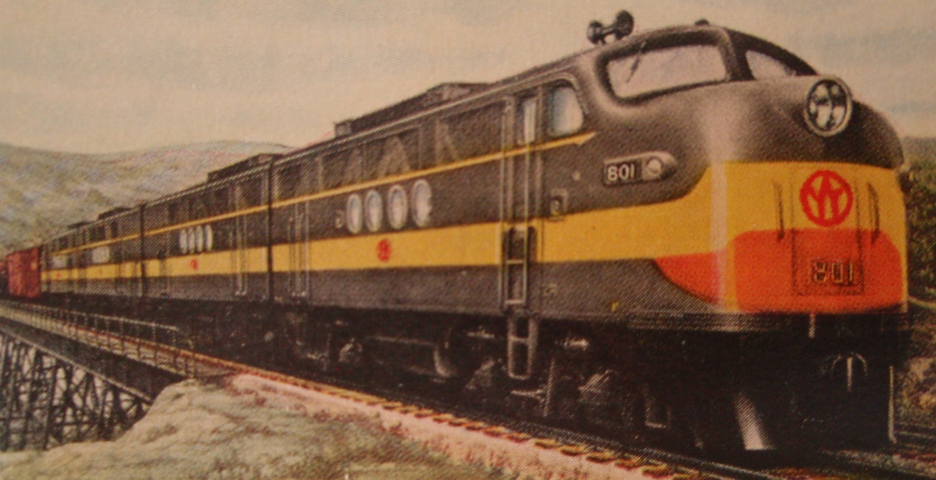 Depiction of new New York, Ontario and Western Railway EMD built diesel locomotives built for freight service in 1947 from a pocket calendar.